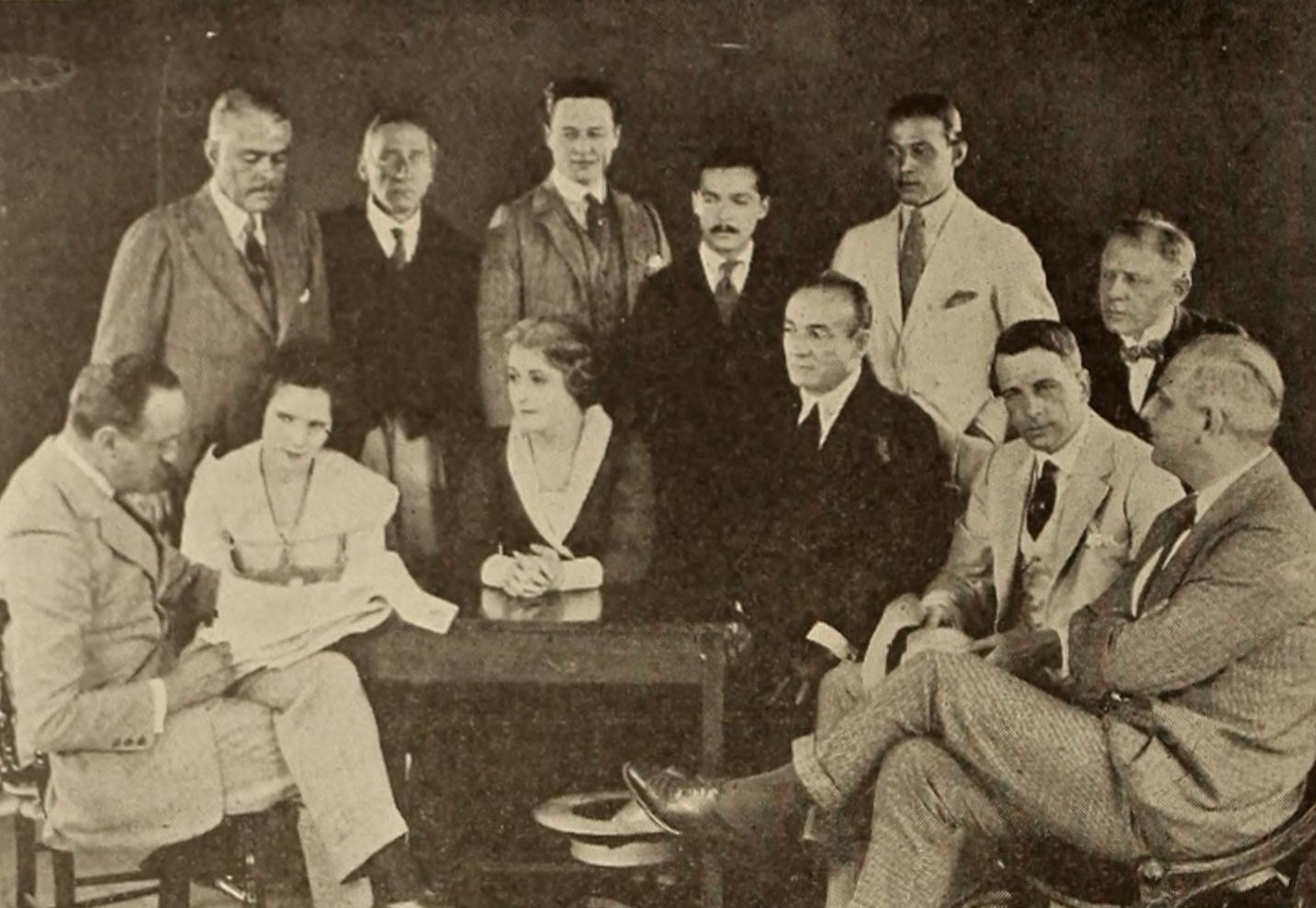 Cast of the American film Eyes of Youth grouped around director Albert Parker and lead actress Clara Kimball Young. in the back row are Gareth Hughes and Rudolph Valentino. On page 1834 of the August 30, 1919 Motion Picture News.